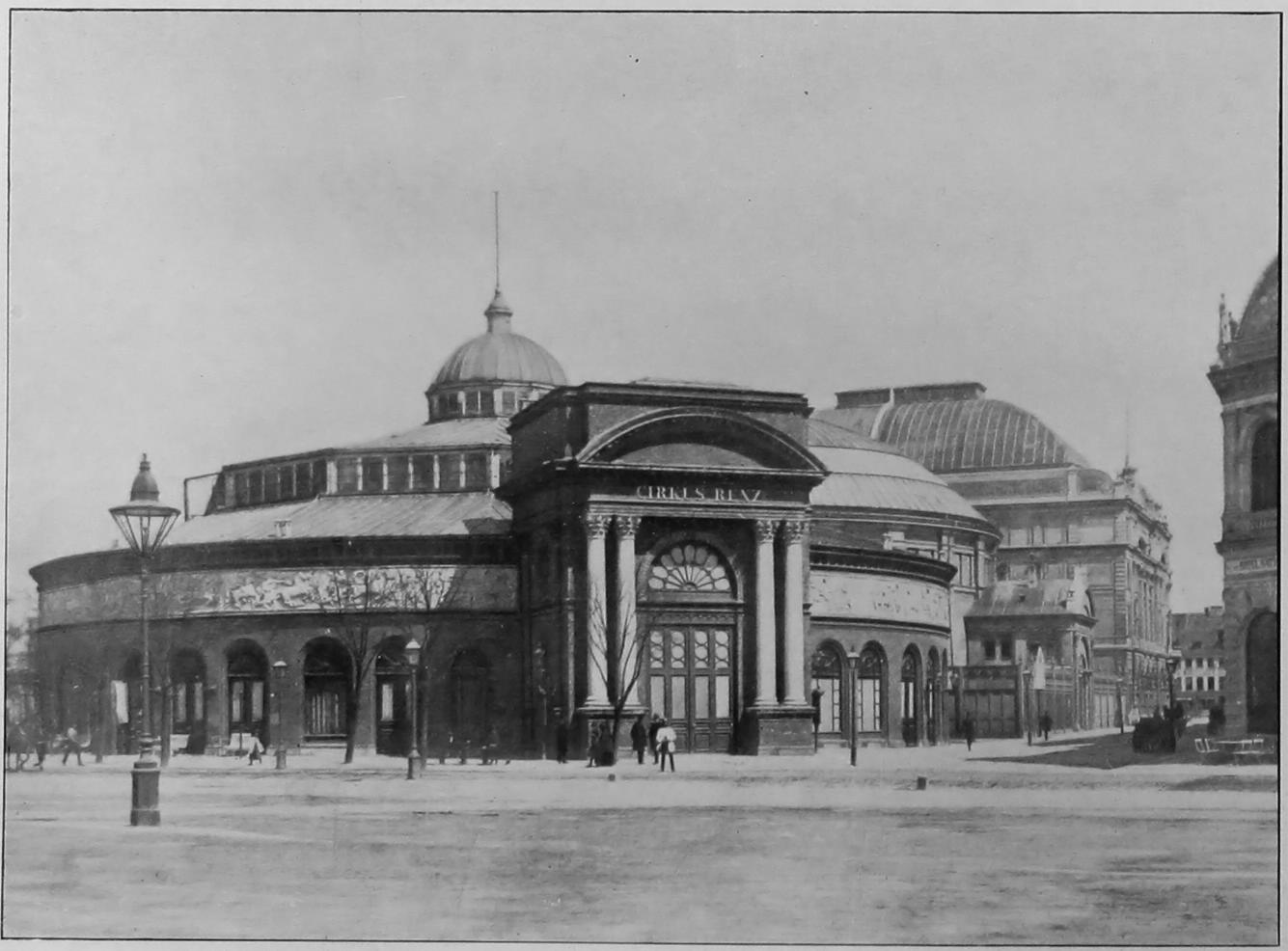 Cirkusbygningen ("The Circus Building") in Copenhagen in 1886